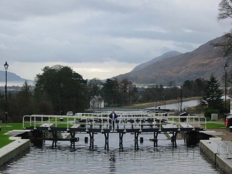 Looking down the locks to the entrance canal from Loch Linnhe and the sea. Photograph by Stephen Dawson, 9 February en:2002